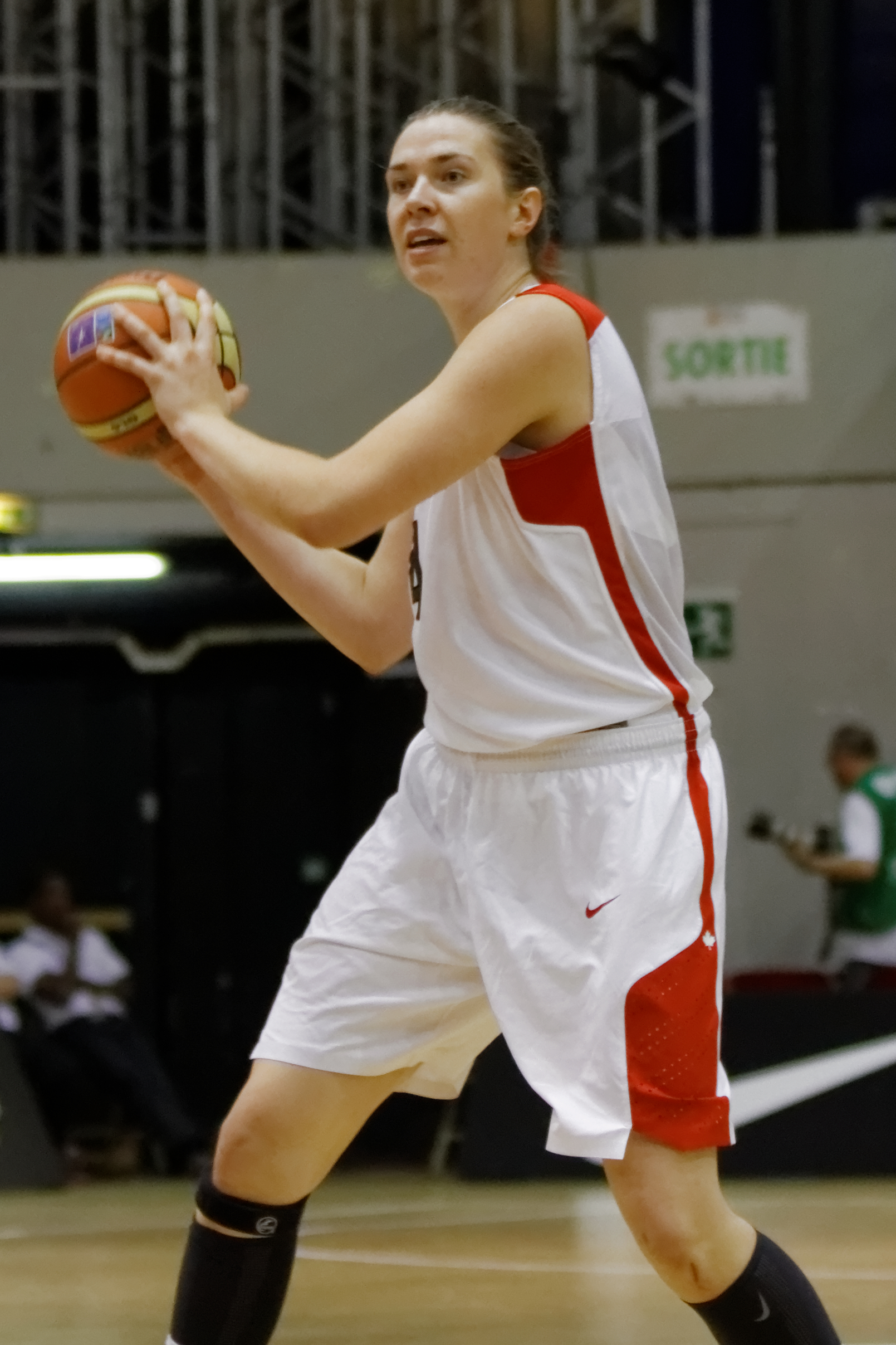 EuroEssonne, France - Canada, 7 June 2013.